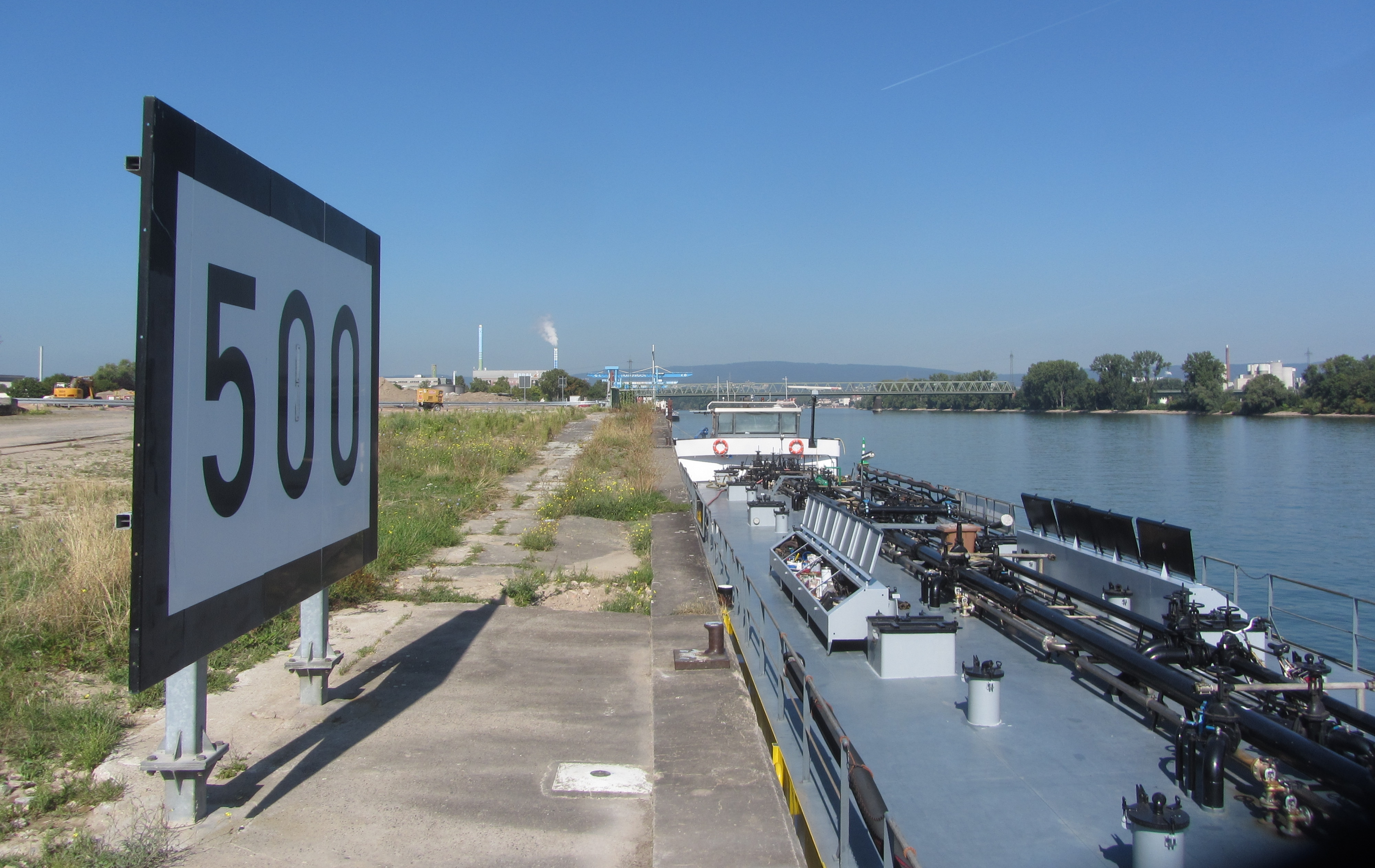 Rhine kilometer 500 at the Port of Mainz